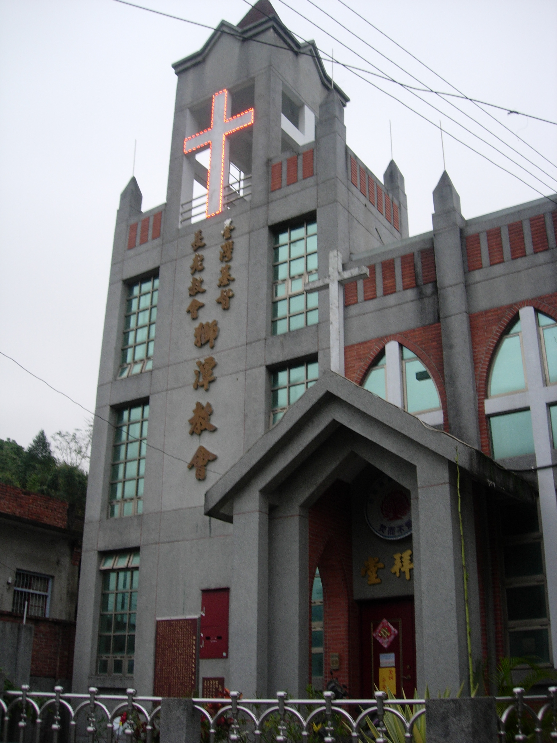 Shitan Church, Presbyterian Church in Taiwan.